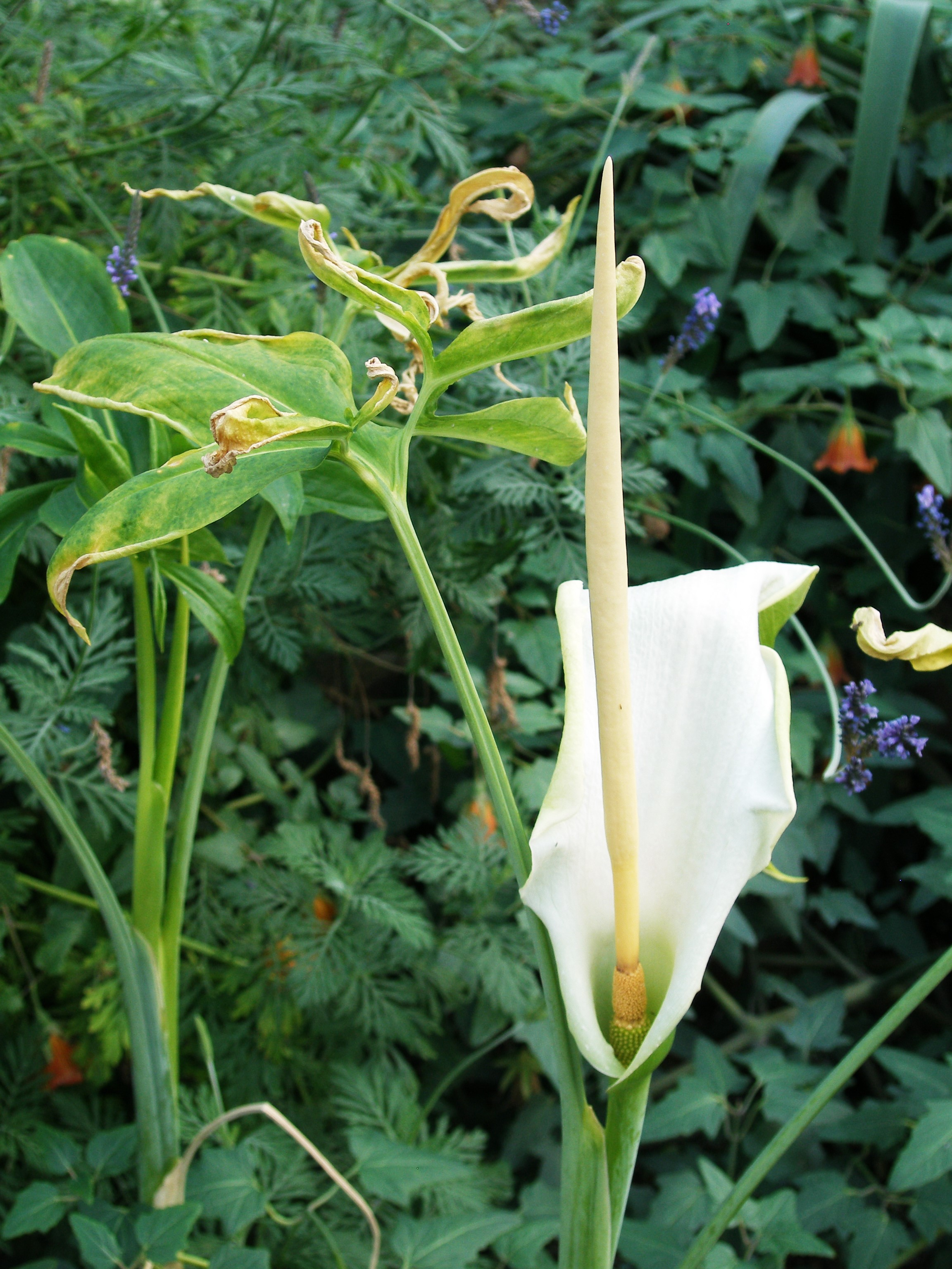 Specimen in cultivation at the Royal Botanic Gardens, Kew, United Kingdom.